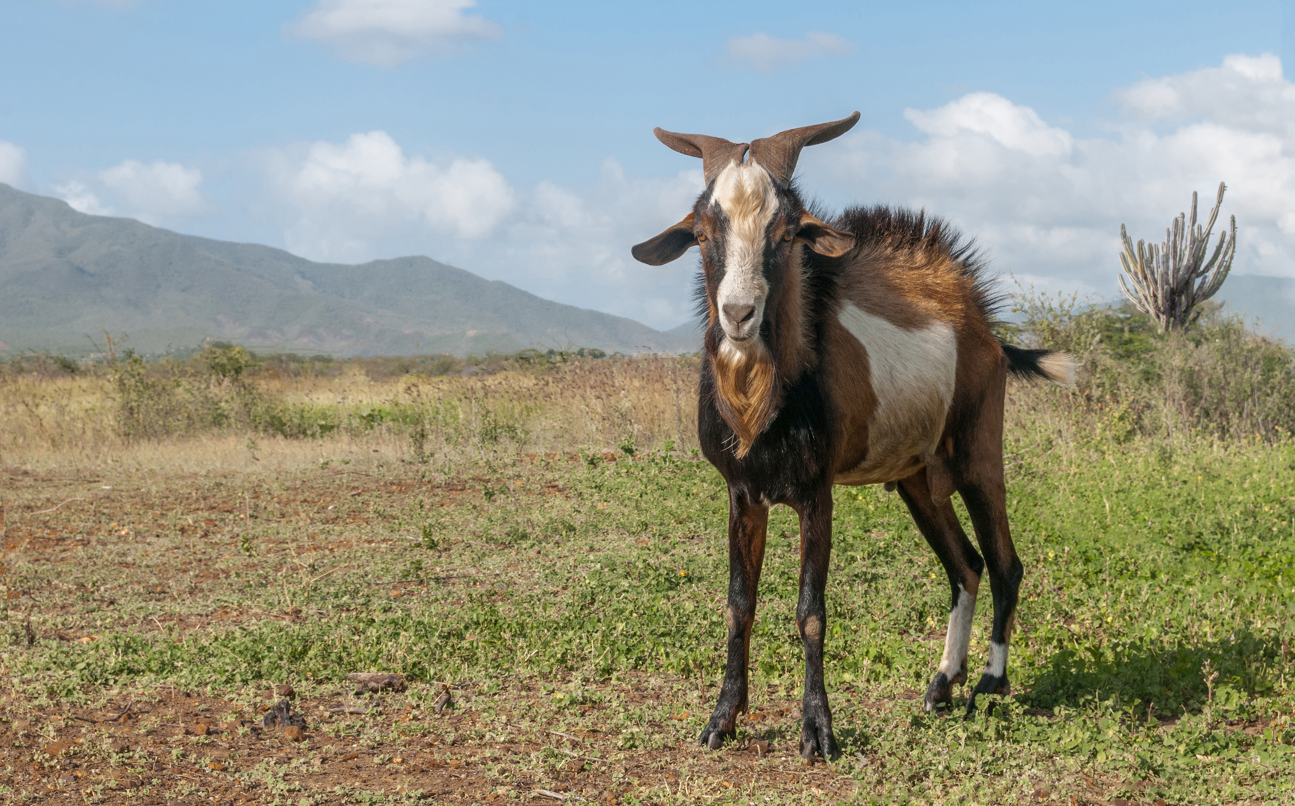 Male goat (Capra aegagrus hircus) animal in heat, isla Margarita, Venezuela